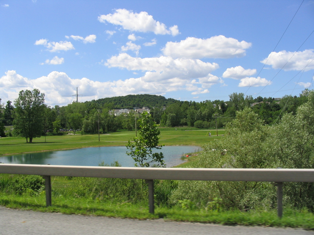 photo of DeWitt, NY from I-481 looking west at a new housing development, taken by me on June 20, 2004